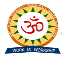 SCHOOL LOGO